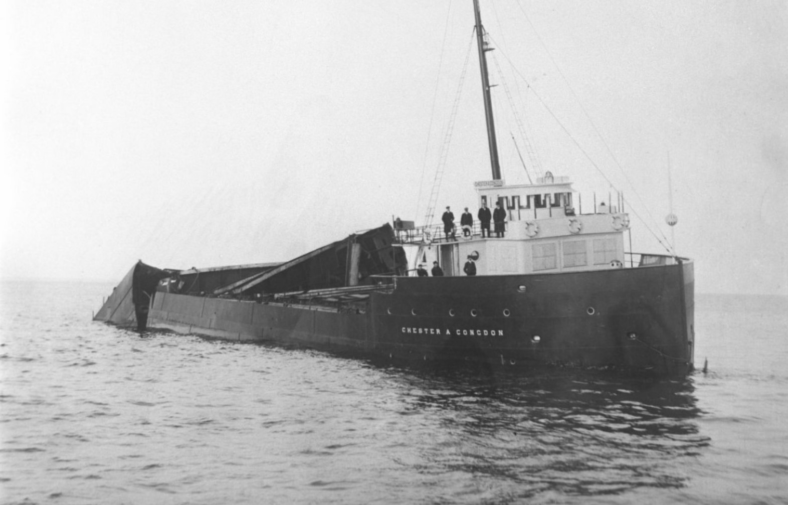 Wreck of the steamer Chester A. Congdon